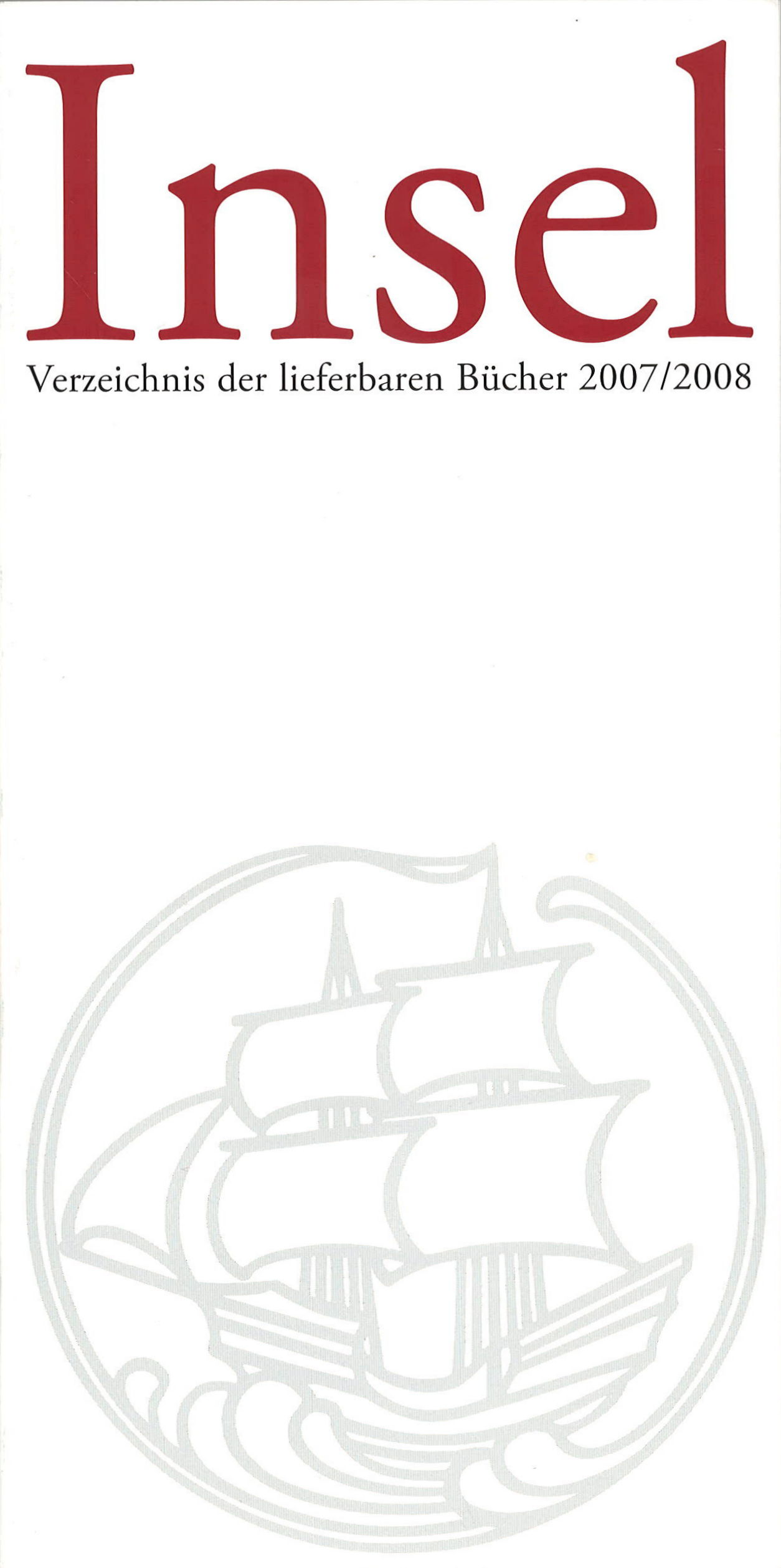 Frontcover of Insel Verlag's recent current total catalog "Insel Verzeichnis der lieferbaren Bücher 2007/2008"